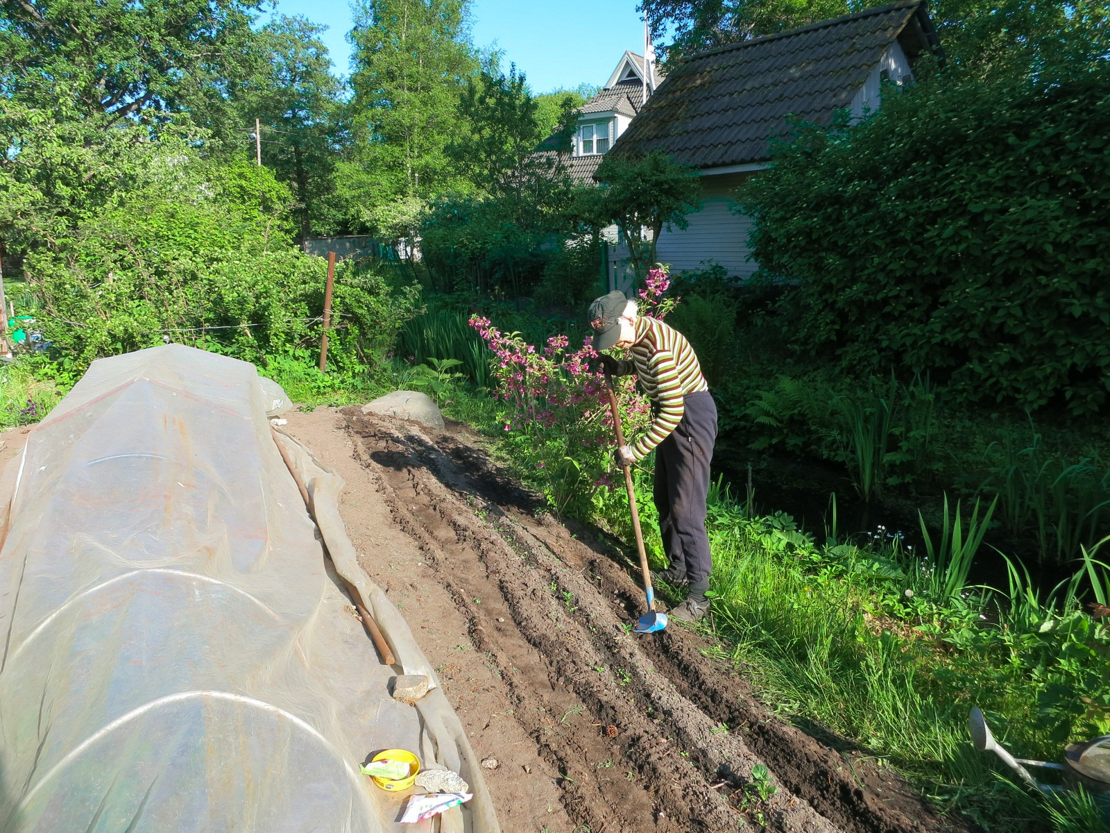 87-year-old gardener is sowing beetroot seeds in her home (hobby) garden in Harju County (Estonia). At the moment, she is covering the right row seeds with soil. The left row is already covered and lightly rammed also. In the middle row, you can see small young shoots of radish. Plastic film covered hotbed for cucumber plants is at the left side of the picture.